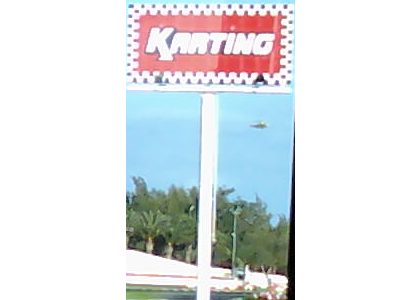 poster of Karting in south of Gran Canaria